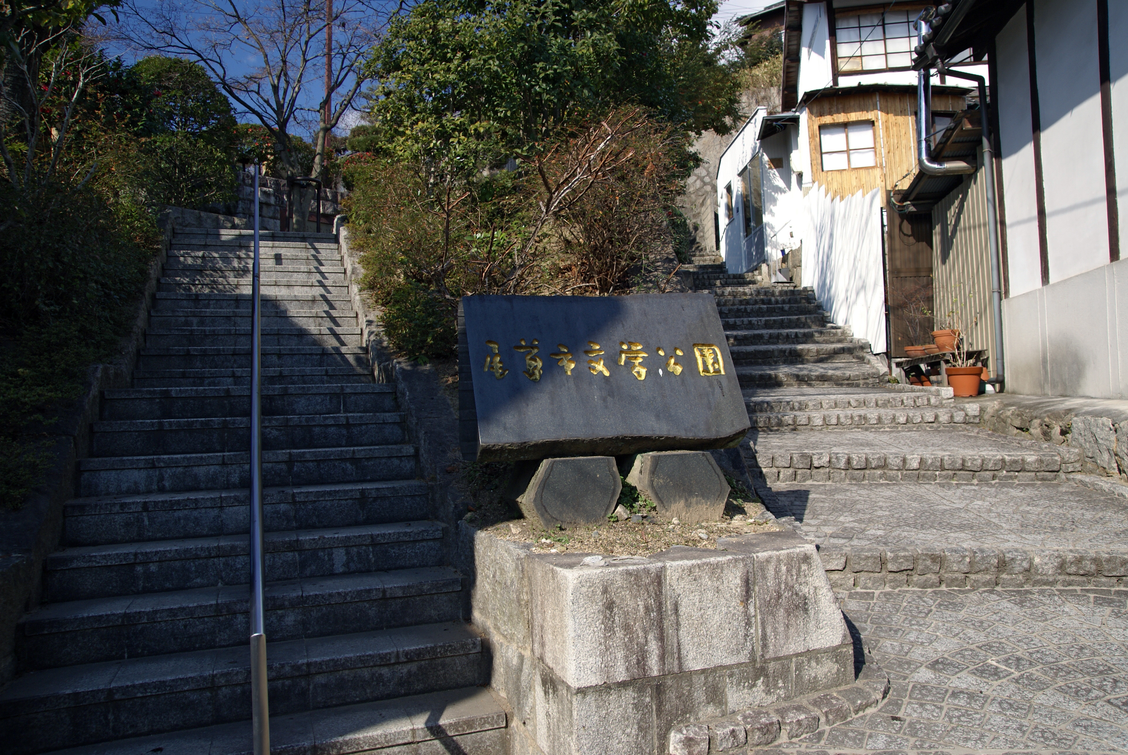 A Mansion of Literature Onomichi "Onomichi-shi Bungaku-koen" in Onomichi, Hiroshima prefecture, Japan